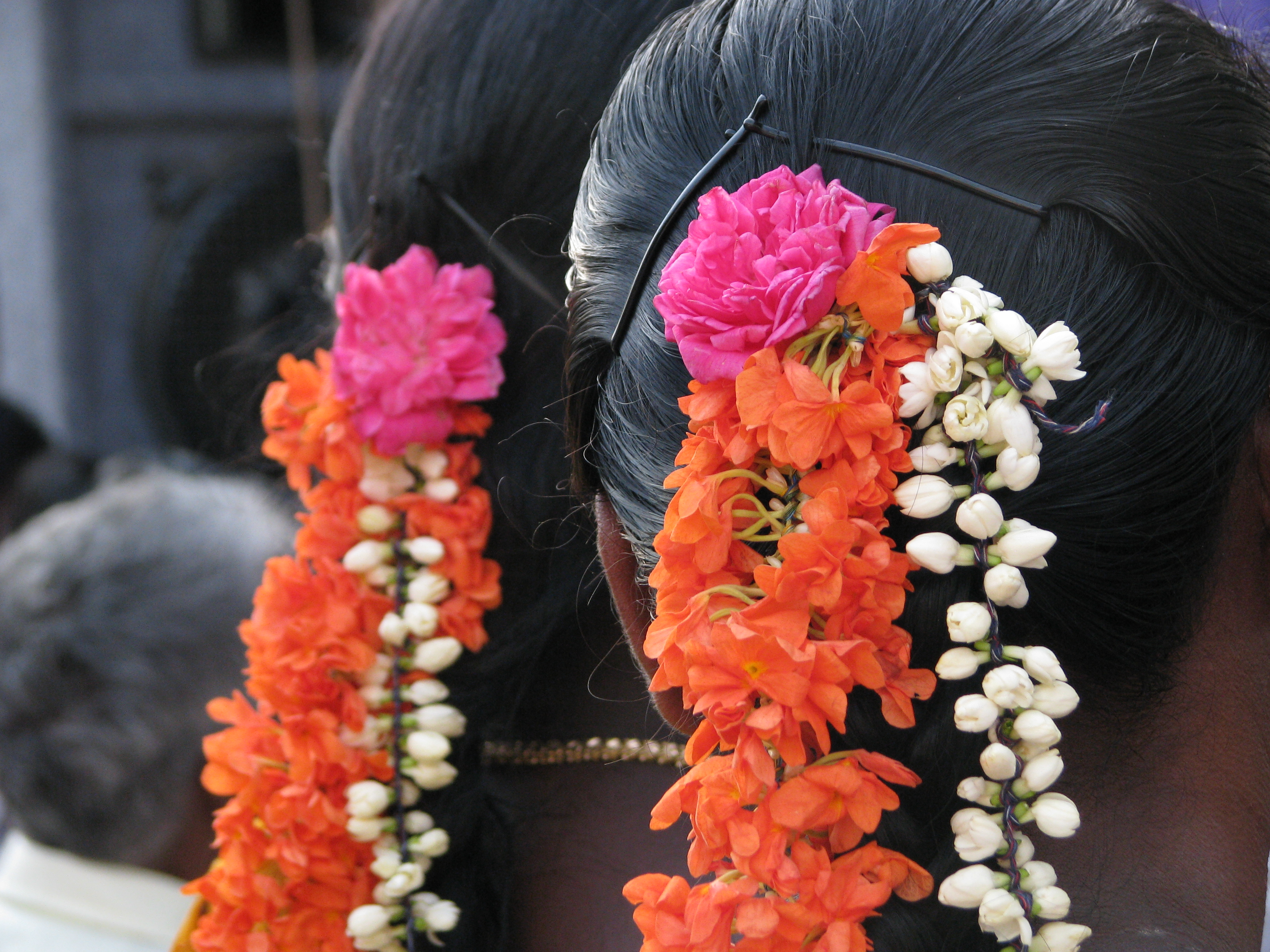 Women in Tamil nadu traditionally wear fresh flowers in their hair every day. Usually it is just jasmine, but they have added rose and crossandra (corrected based on comment below) today as it was a special occasion.